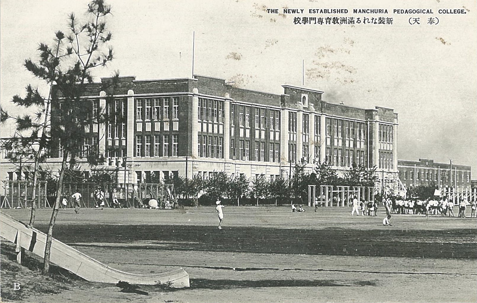 Postcard: The newly established Manchuria pedagogical college. On the other side, "taisho hato" trademark, "made in wakayama"